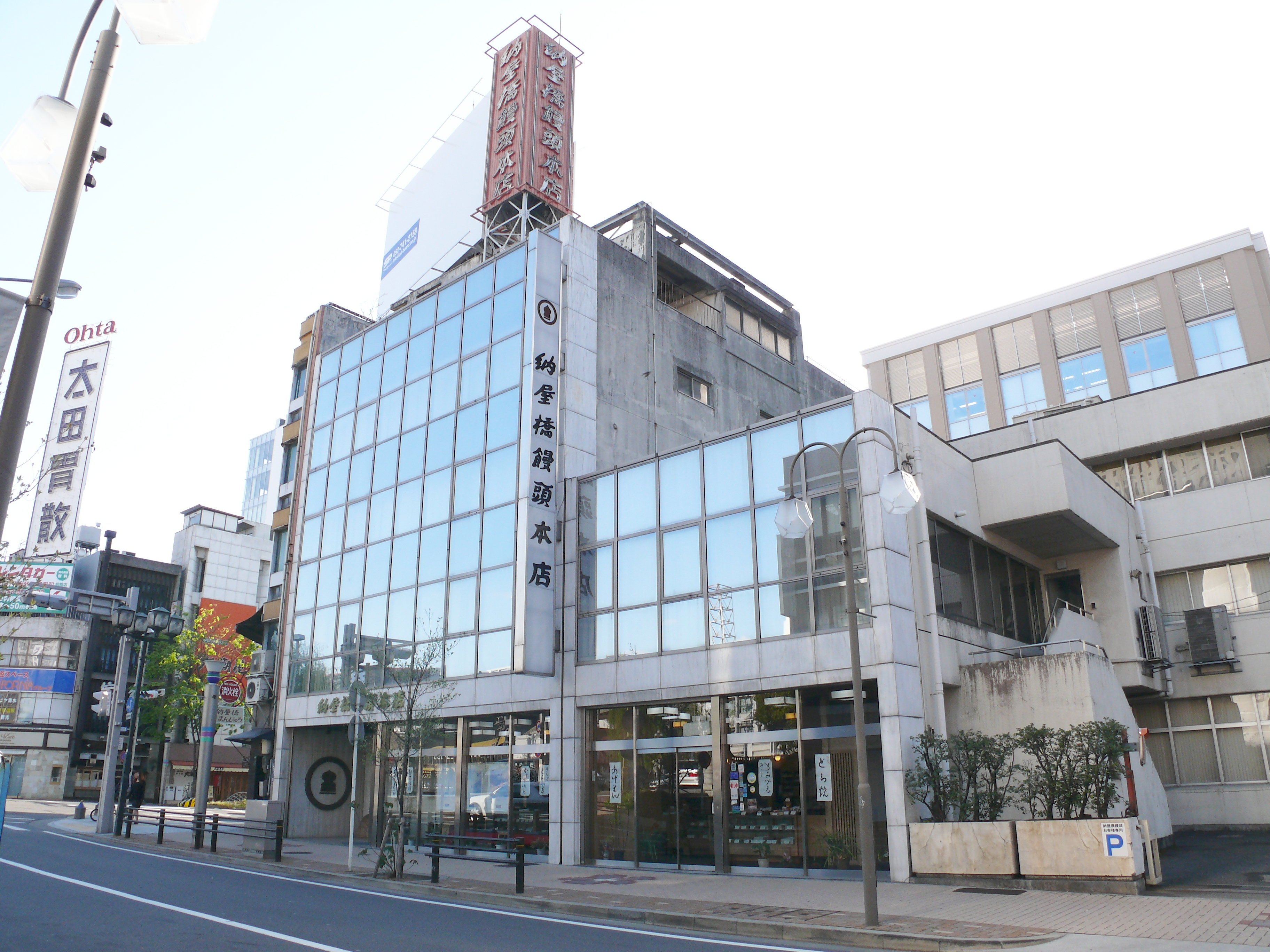 Nayabashi-Manjyu Honten.